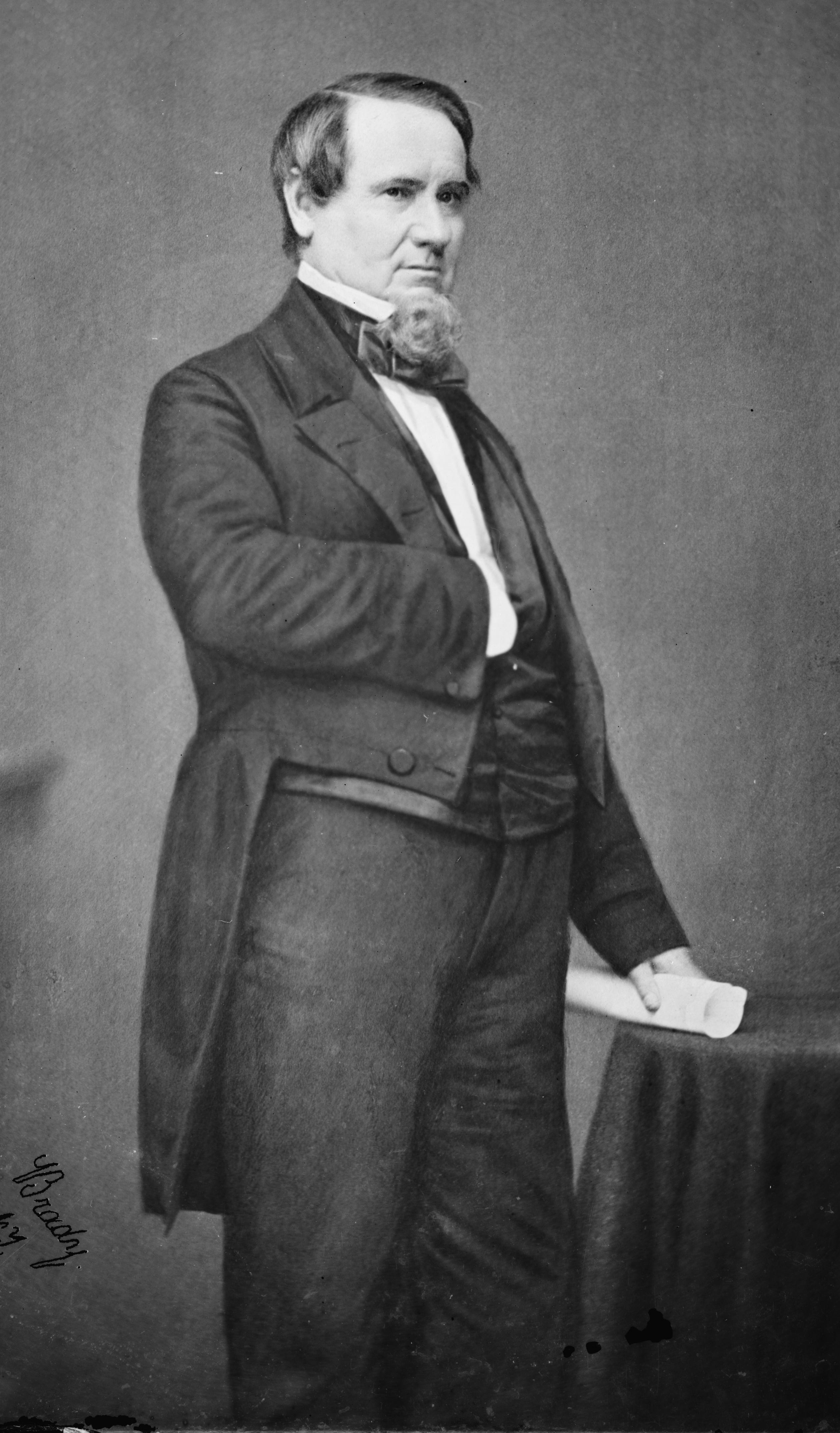 Albert G. Brown. Library of Congress description: "Hon. Albert G. Brown of Miss."